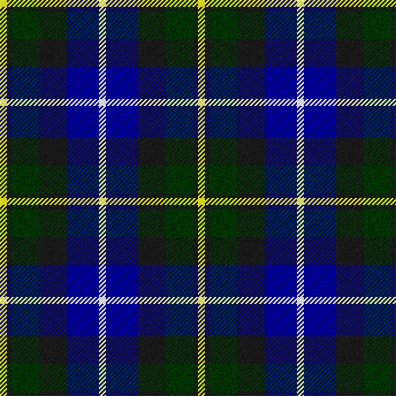 A digital representation of the "Macneil of Barra" tartan. This tartan is one of the two clan tartans recognised by the chief of Clan Macneil.